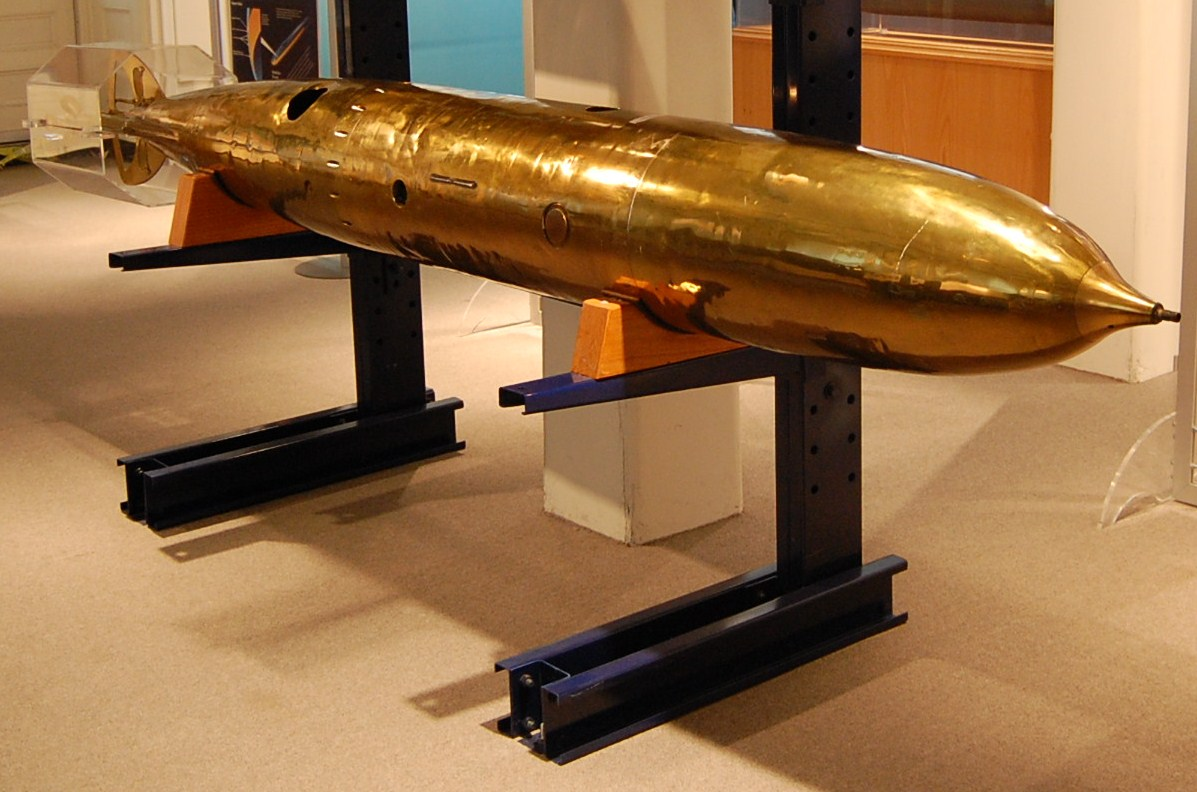 Howell torpedo at the Naval Undersea Museum in Keyport, Wash.